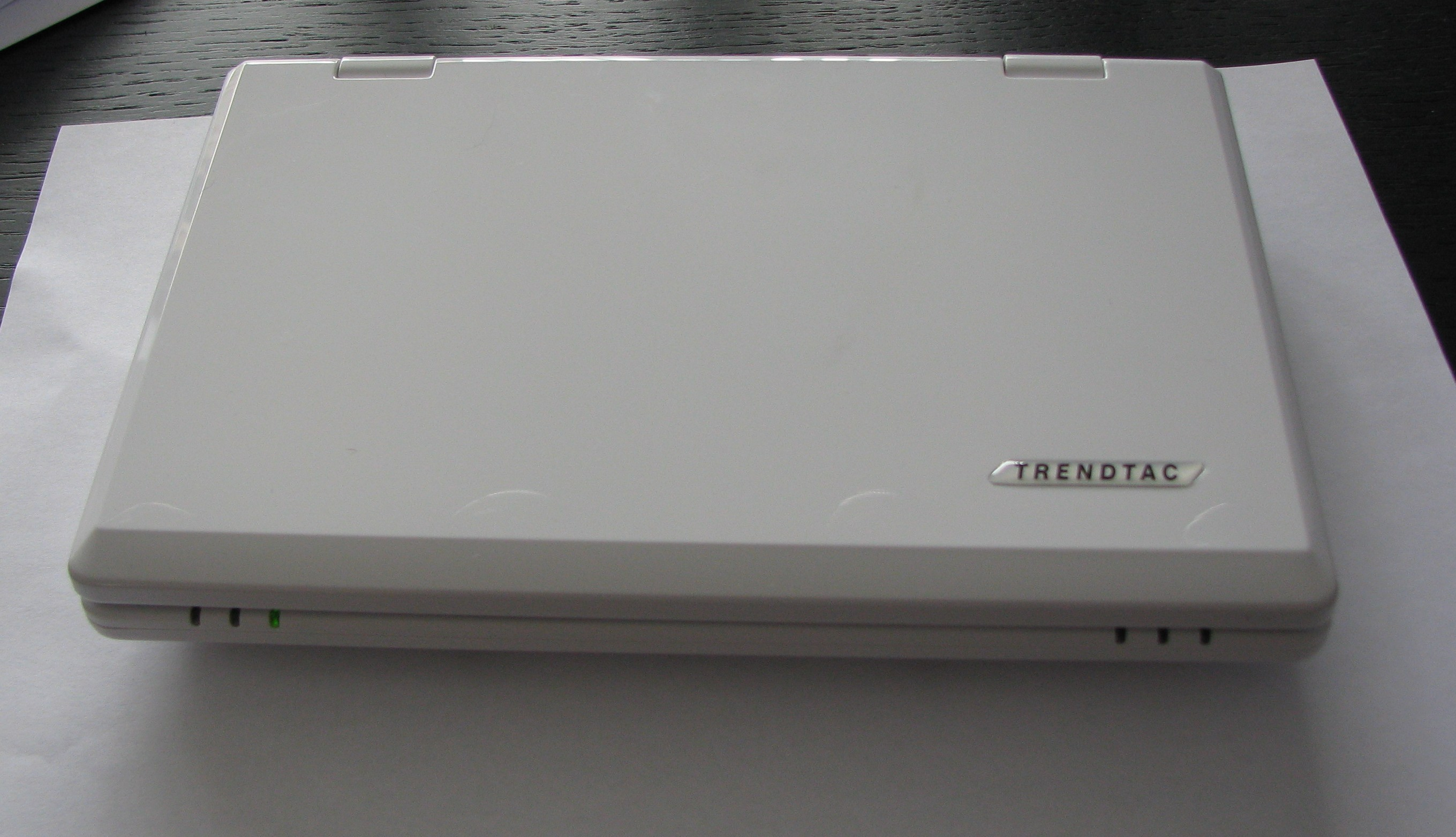 Trendtac Epc 700, version of the Skytone Alpha 400 sold on the Netherlands